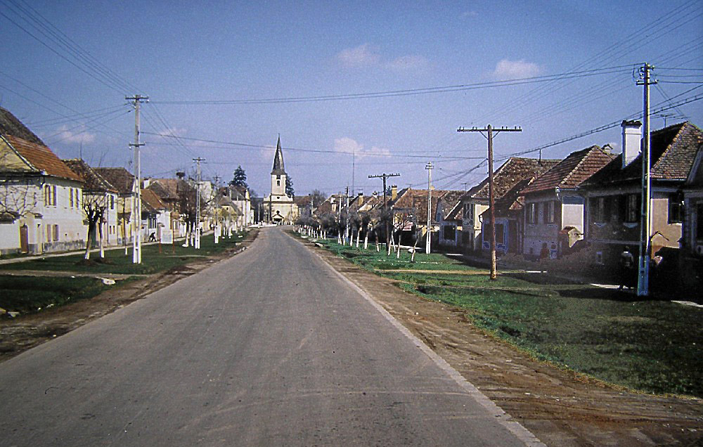 Nocrich, Romania.